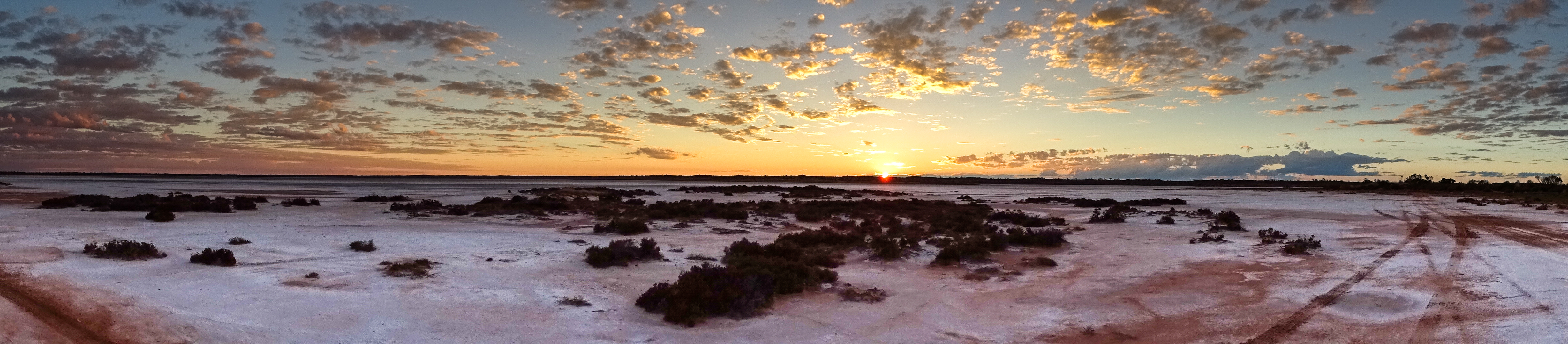 Sunset at Aerodrome Lake (25 May 2017)